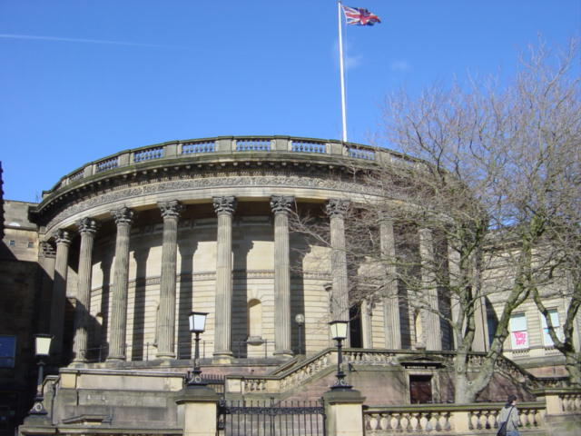 Picton Library, William Brown Street, Liverpool. The Picton Reading Room, named after Sir James Picton, chairman of the Libraries and Museums Committee was designed by Sherlock and built between 1875-9. The semi-circular façade surrounded by detached Corinthian columns and with its domed roof, was intended to echo Greek and Roman temples but to the Victorian Liverpudlians it became known as Picton's Gasometer.